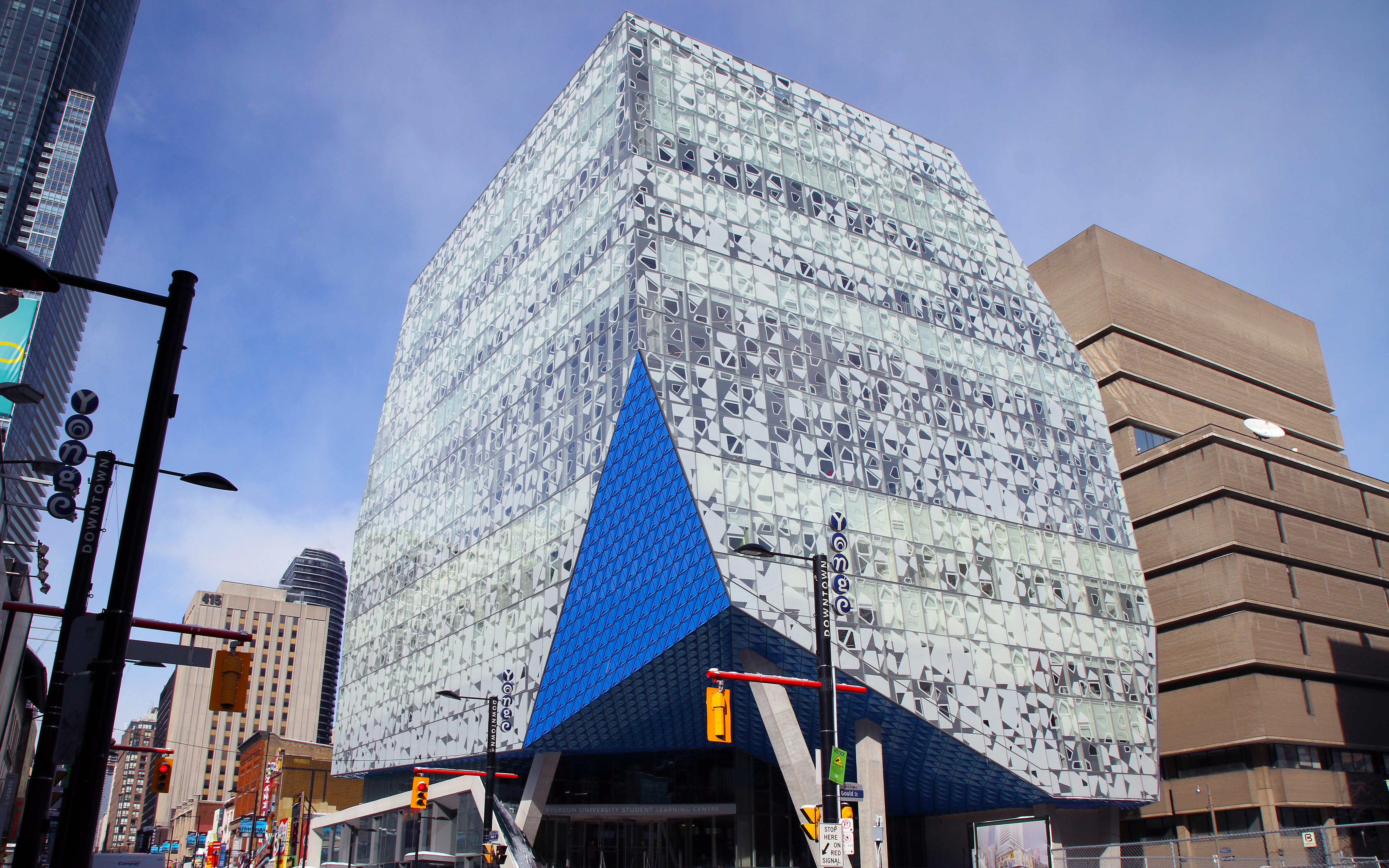 Ryerson University Student Learning Centre at the corner of Yonge and Gould Streets in Toronto, Ontario, Canada.